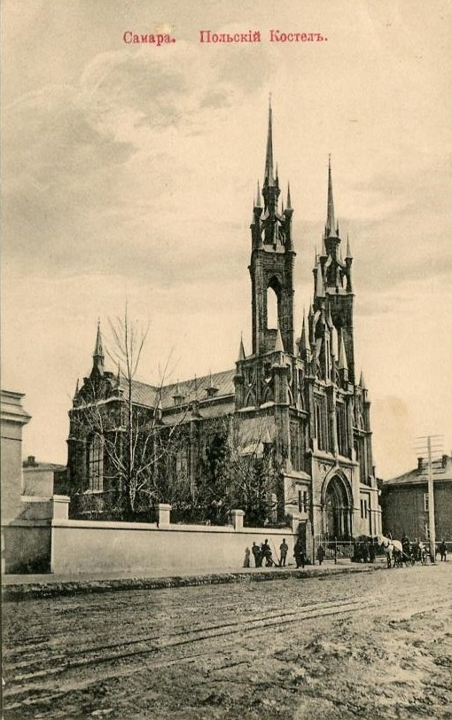 Catholic church of Sacred Heart in Samara, Russia. Old postcard. 1914.